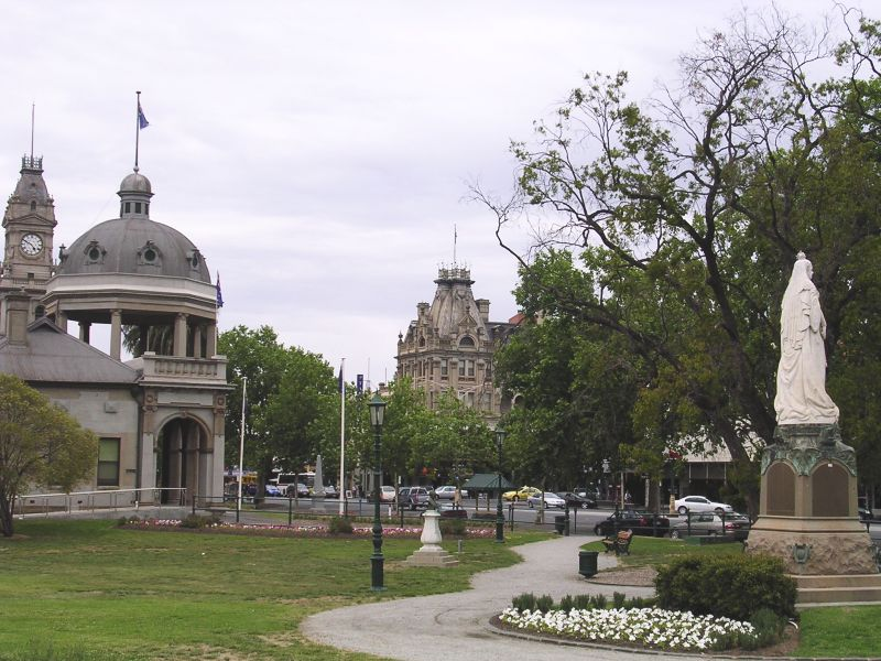 Rosalind Park Bendigo, featuring the war memorial, Post Office and Shamrock Hotel in the distance and statuary in the foreground.